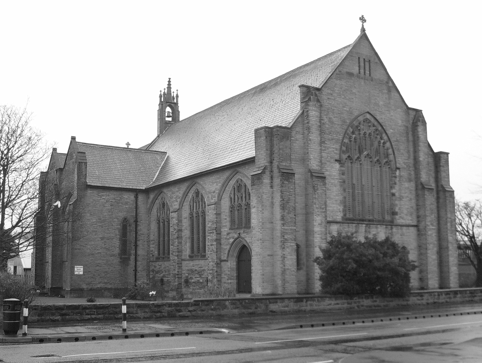 St Aidan's parish church, Station Road, Bamber Bridge, Lancashire, seen from the northwest